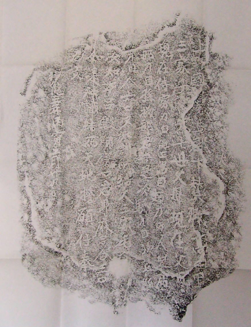 Rubbing of engraved inscription on a rock stele:KANAIZAWA-stele at Takasaki, Gumma, Japan. About 1.1m height, ACE 726